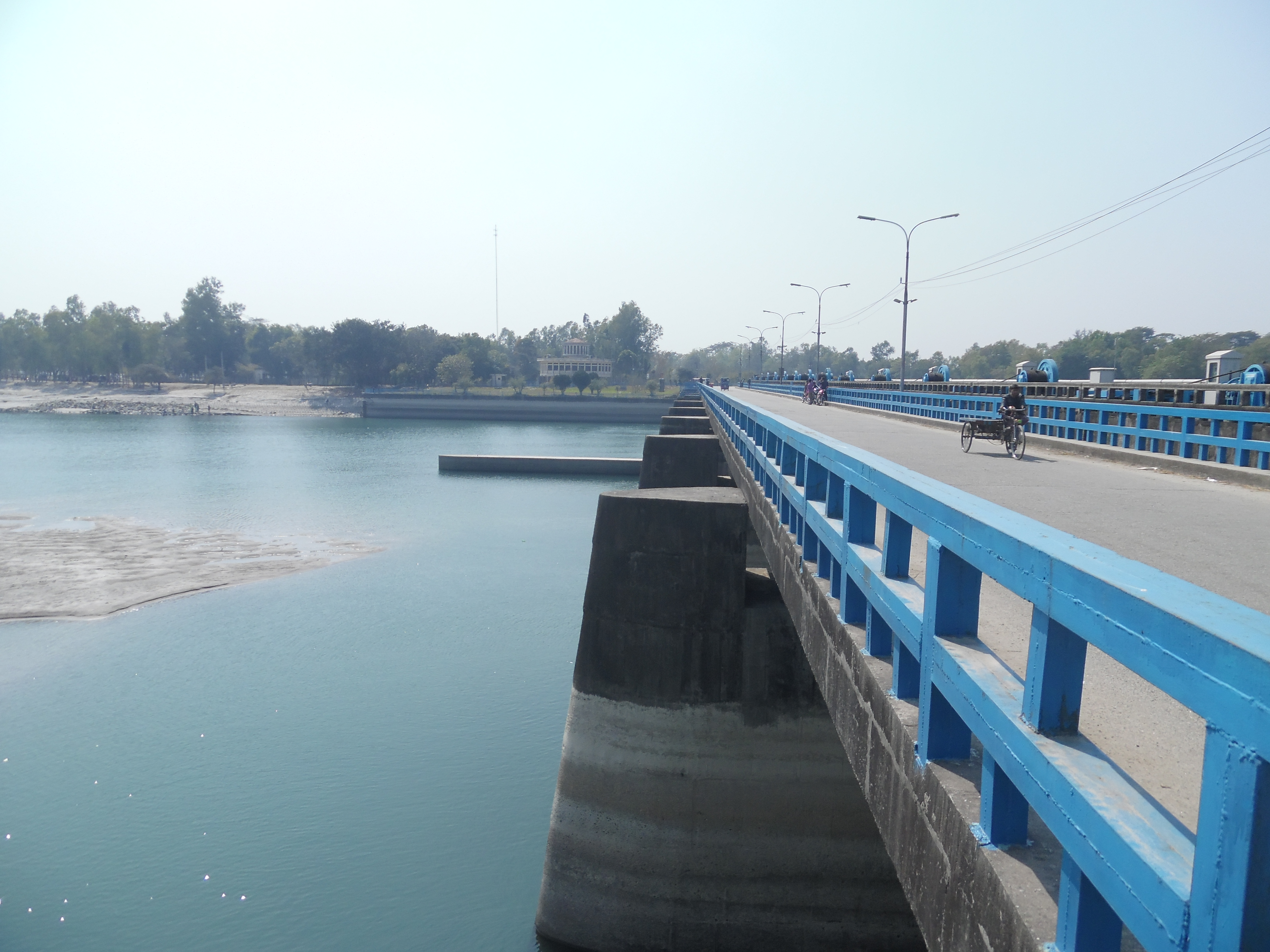 Tista Barrage on the river Tista at Dalia, Nilphamari, Bangladesh. (01.03.2019)